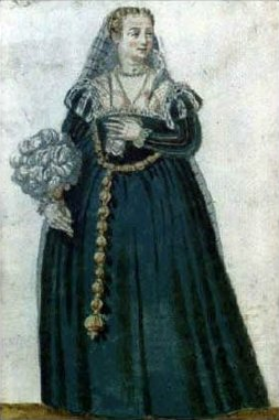 Portrait of a venetian woman